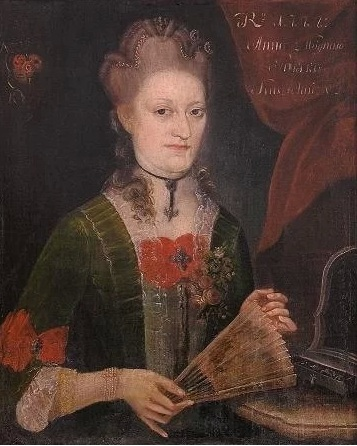 A portrait of Marianna Wojna Gorska